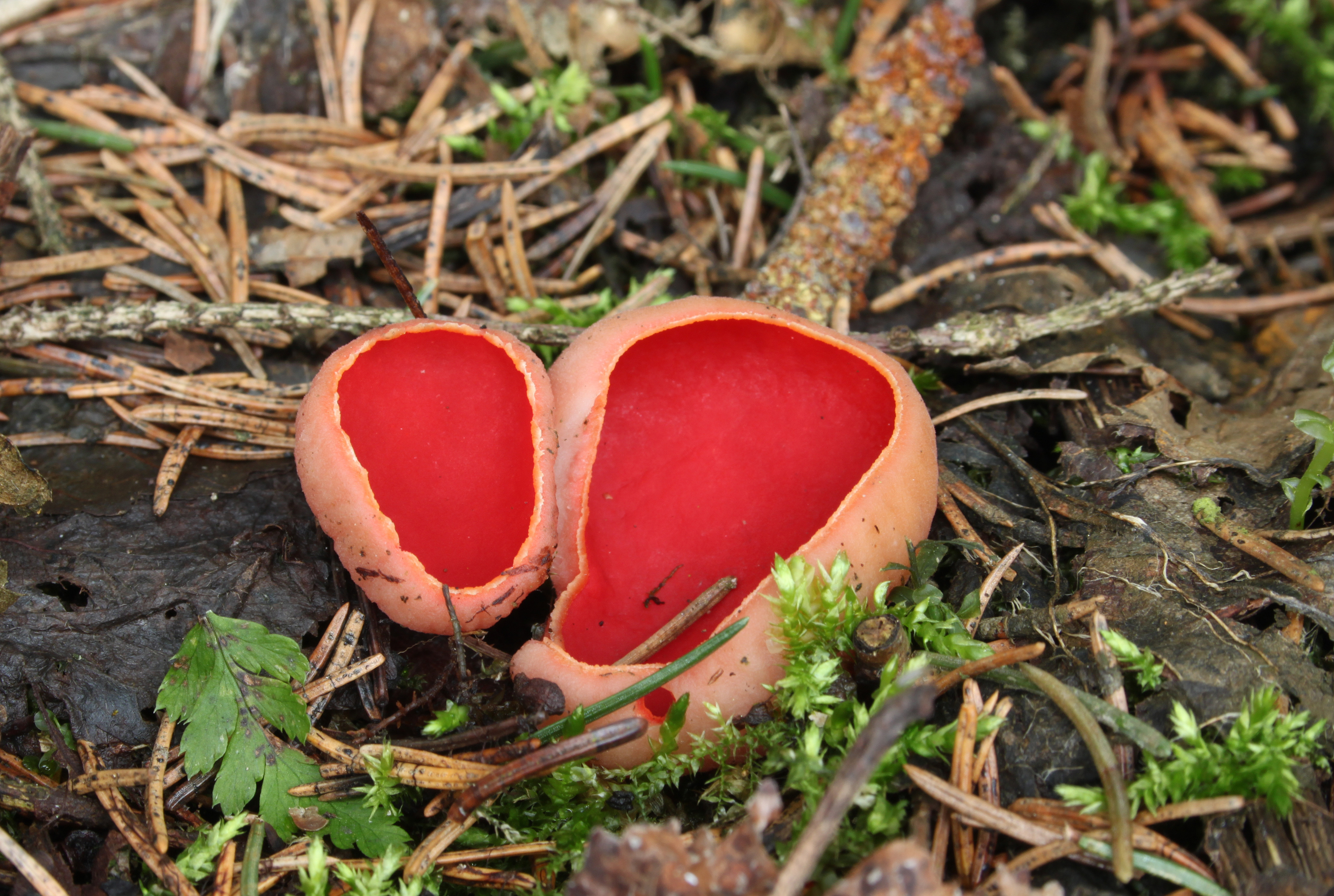 Scarlet Elfcup, Sarcoscypha austriaca syn. Peziza austriaca, Family: Sarcoscyphaceae, Location: Germany, Biberach an der Riss, Ummendorf